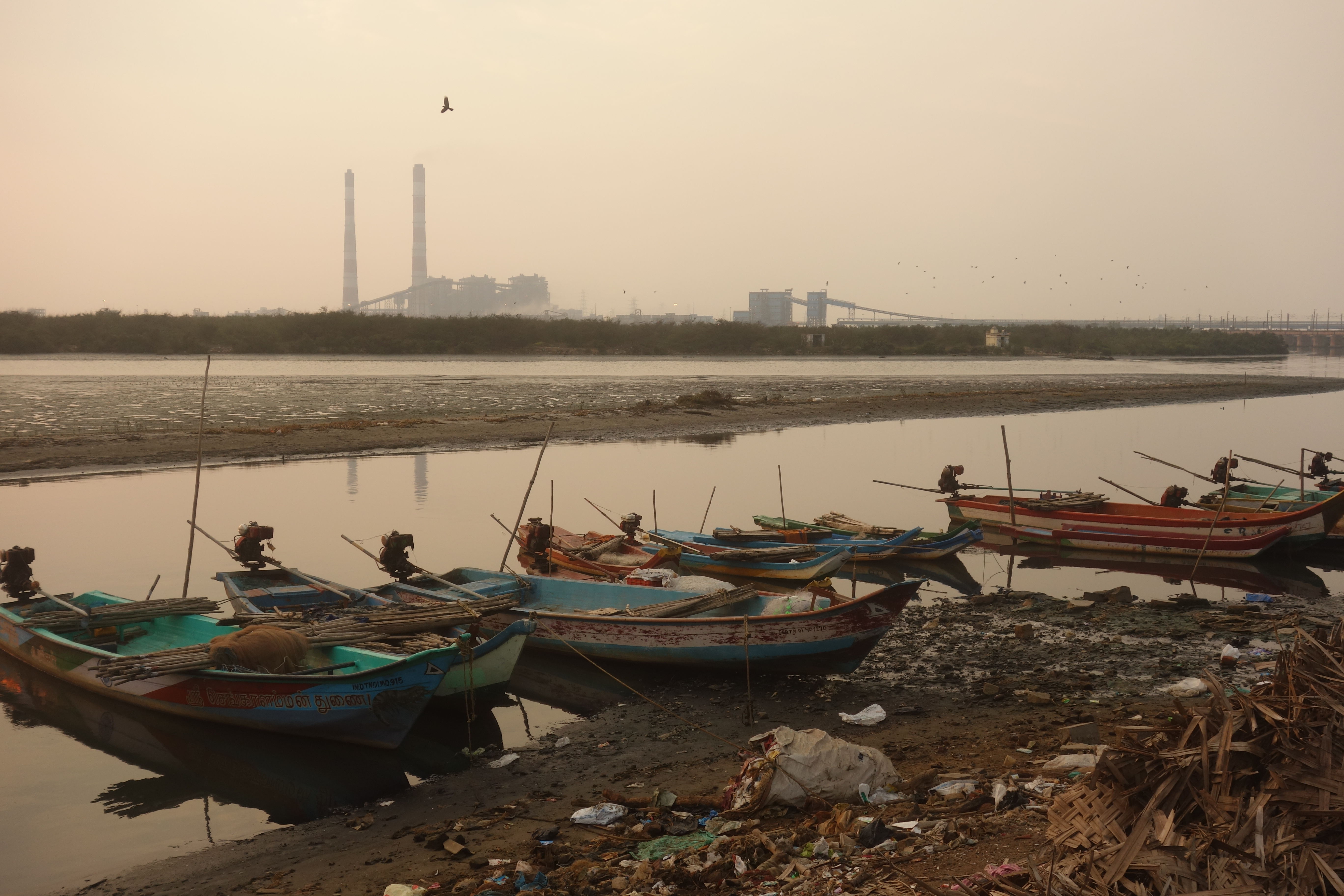 The Industries are a threat to the livelihood of many fishermen in the area, who are dependent on the Ennore Creek.